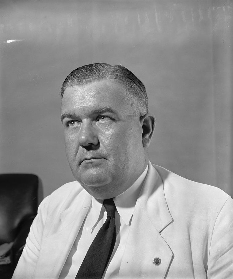 Title: Rep. Sidney Camp Abstract/medium: 1 negative : glass ; 4 x 5 in. or smaller